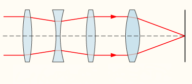 Zoom lens system